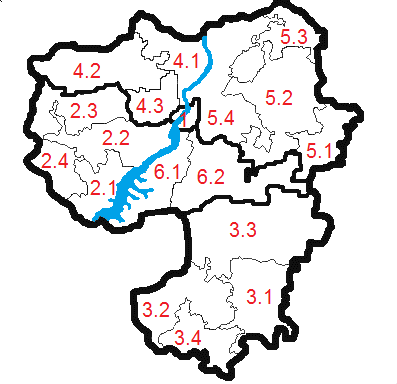 Municipalities of Uglichsky District